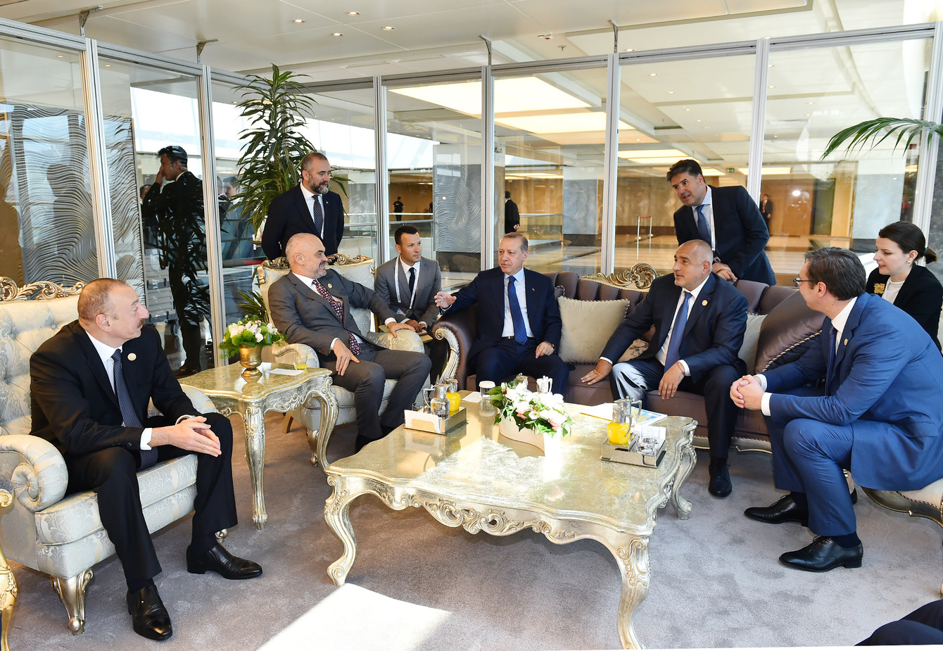 Prior to the start of the 22nd World Petroleum Congress in Istanbul, President of the Republic of Azerbaijan Ilham Aliyev, President of the Republic of Turkey Recep Tayyip Erdogan, President of Serbia Aleksandar Vučić, Prime Minister of Albania Edi Rama, Prime Minister of Bulgaria Boyko Borisov and President of the World Petroleum Council Joseph Tot have had a brief talk.